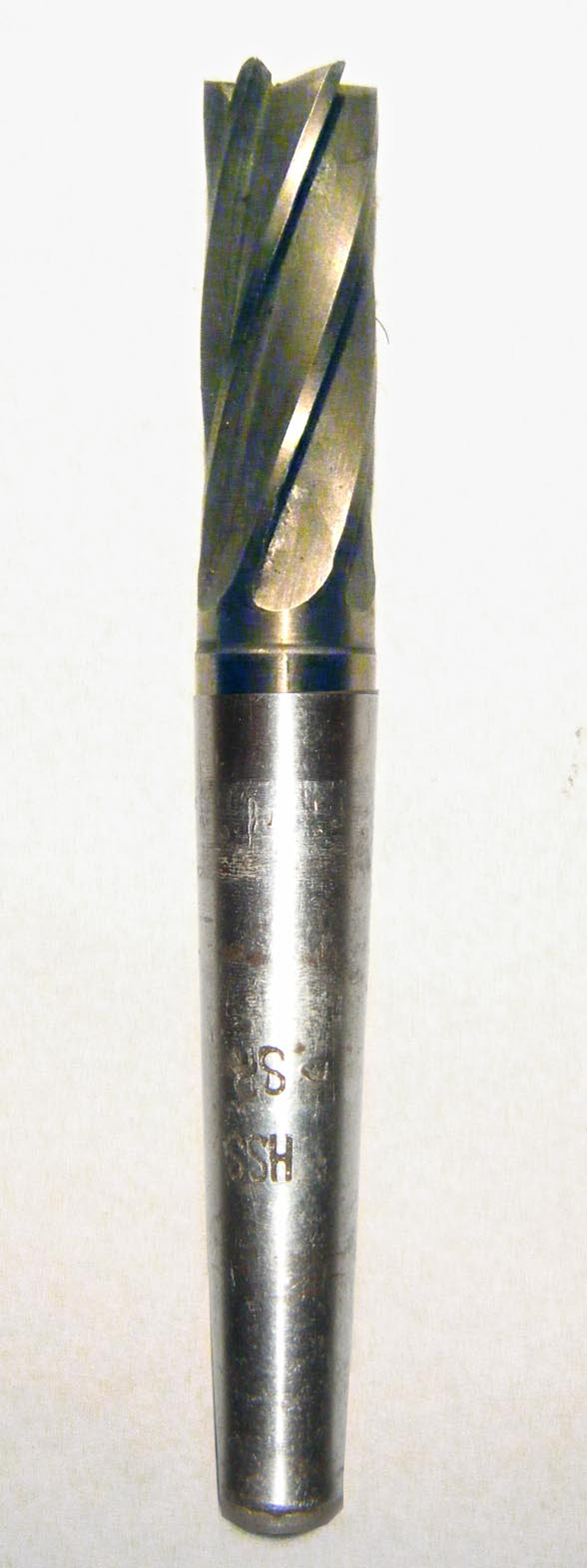 tool for lathe2